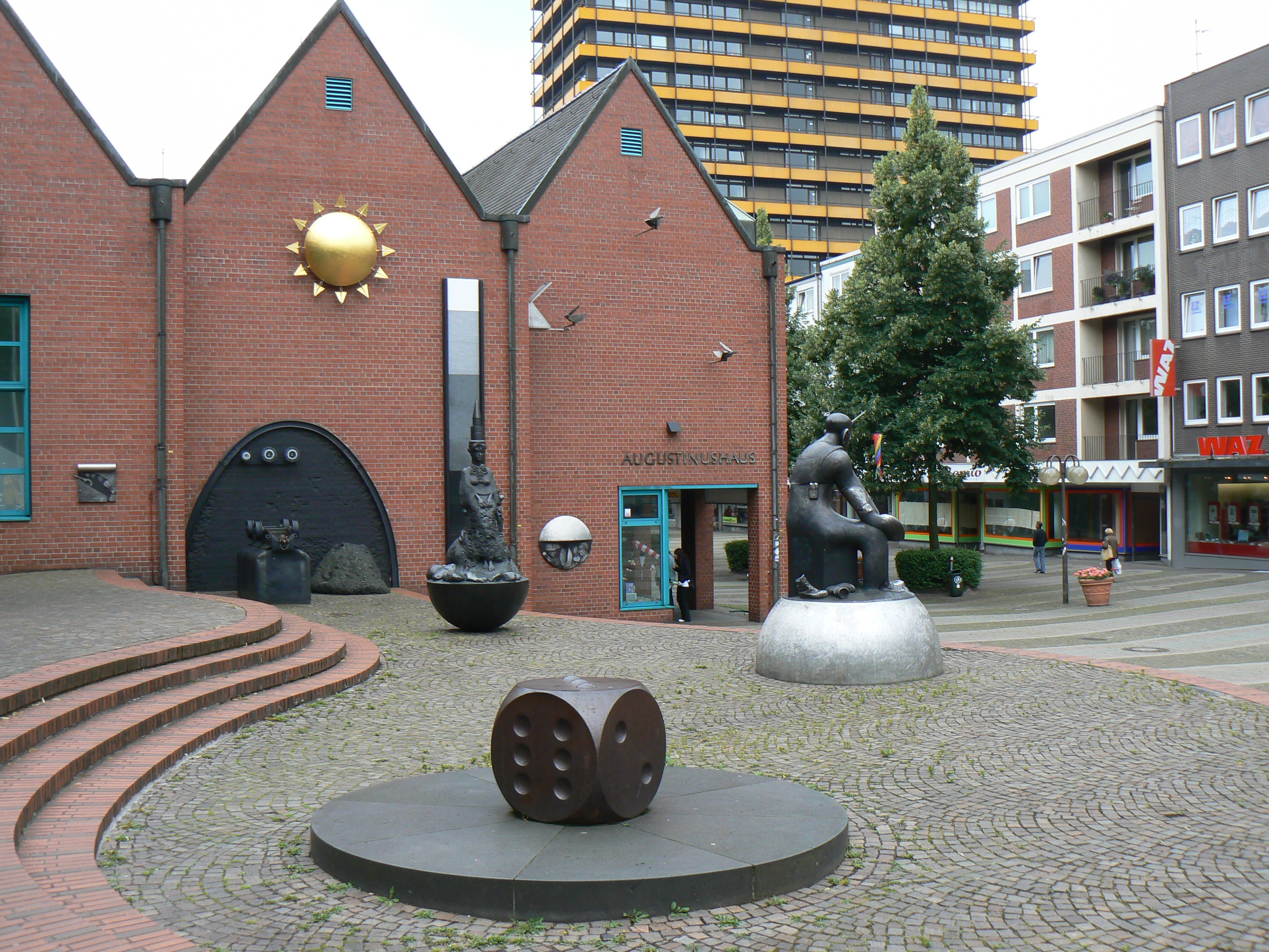 sculpturegroup at the Augustinushaus in the innercity of Gelsenkirchen/Germany